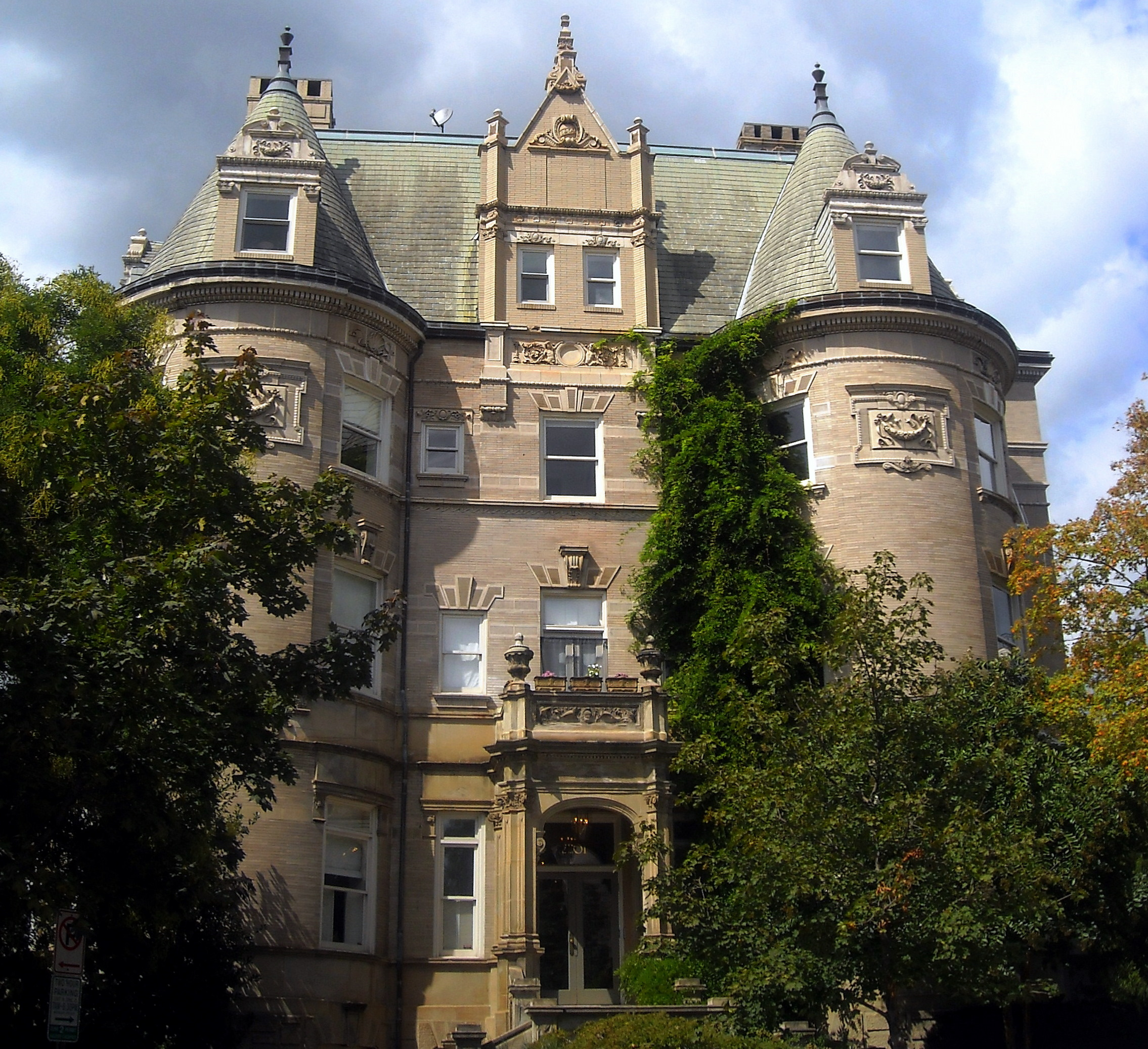 The Miller House (also known as the Frederick A. Miller House, Commander Alexander Miller House, Argyle Guest House, or Argyle Terrace) located at 2201 Massachusetts Avenue, N.W., in the Sheridan-Kalorama neighborhood of Washington, D.C. Designed by Paul J. Pelz in 1900, the Châteauesque mansion now serves as a condominium. It is a contributing property to the Massachusetts Avenue Historic District and the Sheridan-Kalorama Historic District.